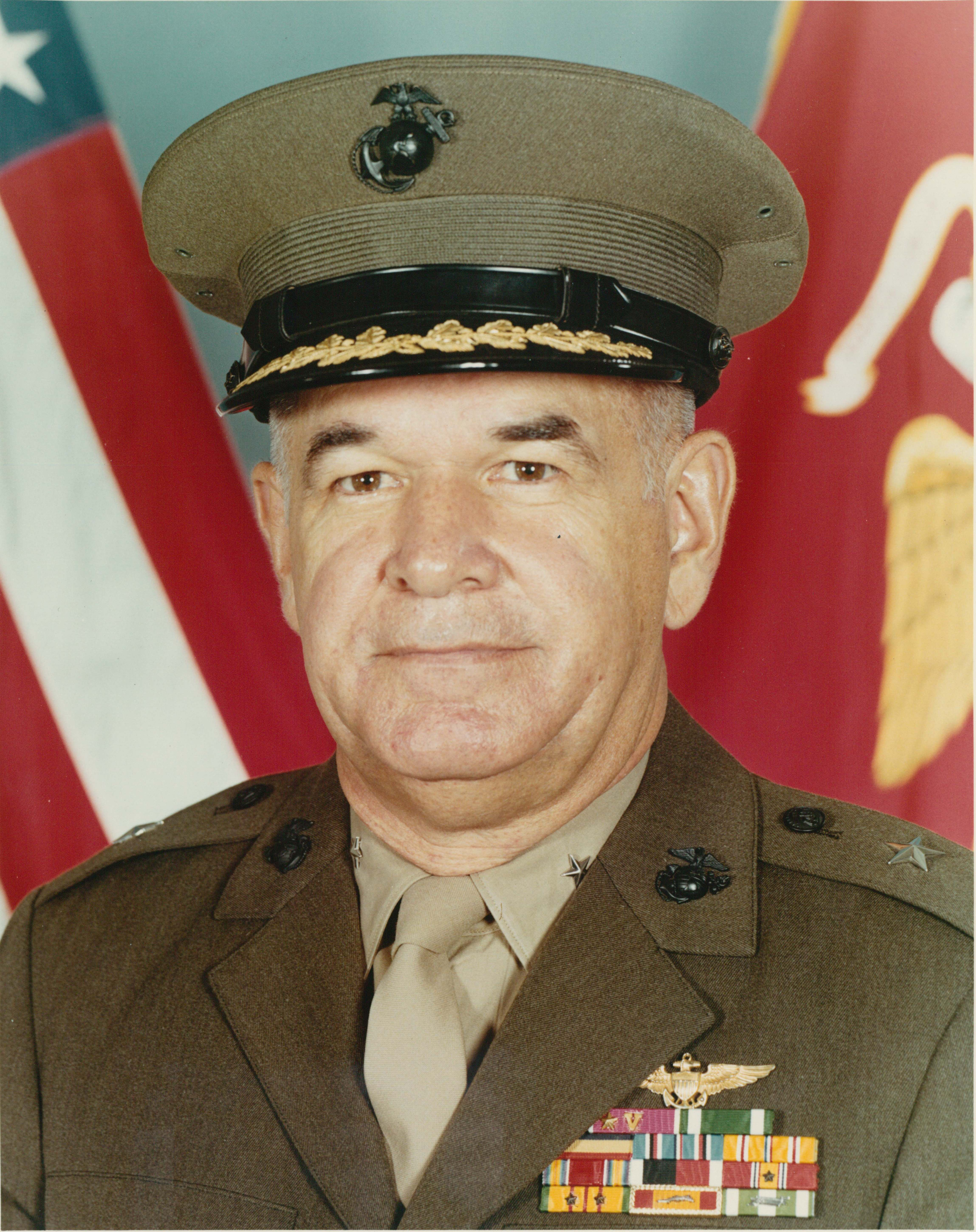 Command photo of then Brigadier General Edward S. Fris taken 11 November 1971 while serving at MCAS El Toro, California.